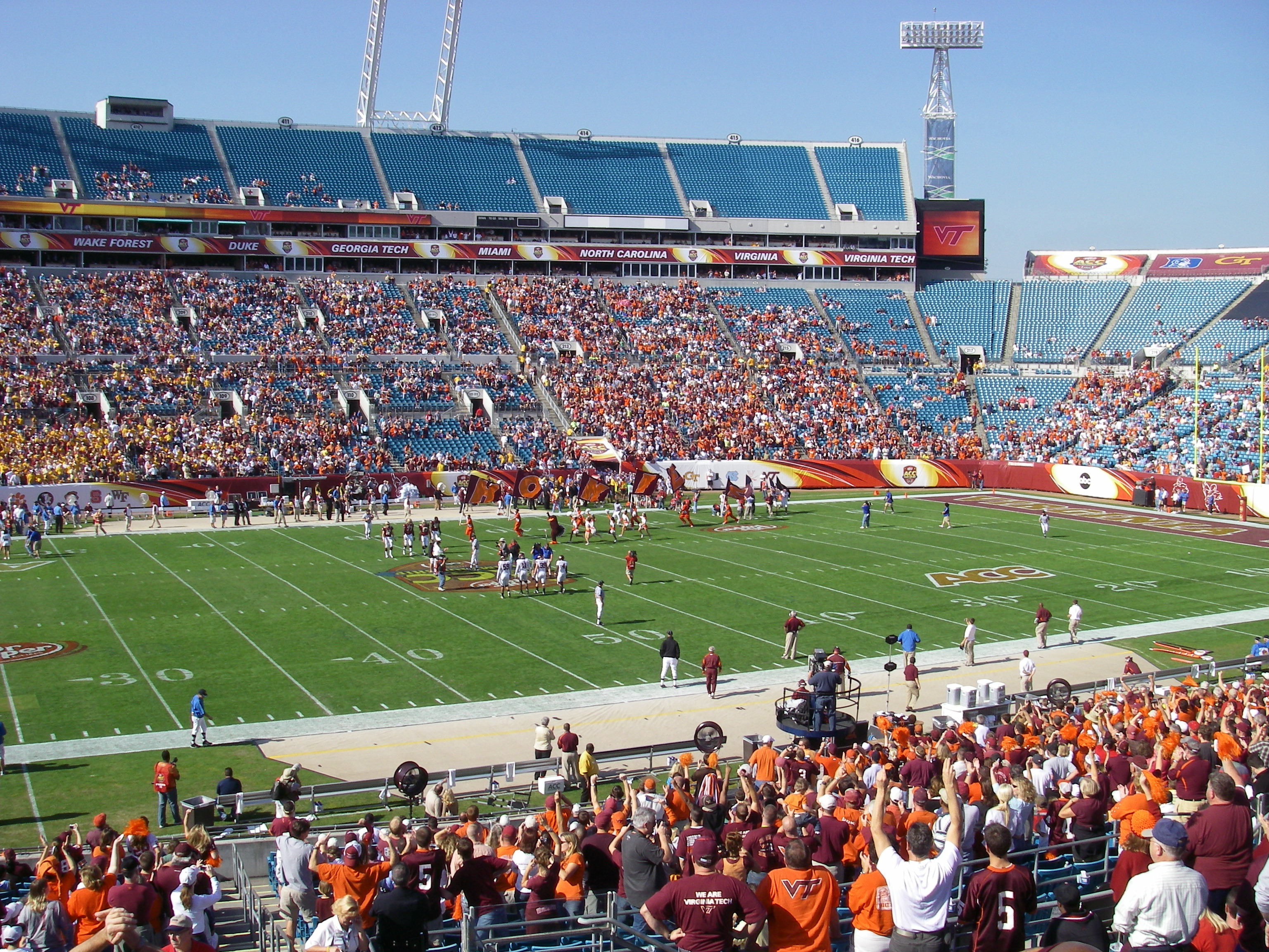 The stands at the 2007 ACC Championship Game are mostly empty while the coin toss takes place on the field.